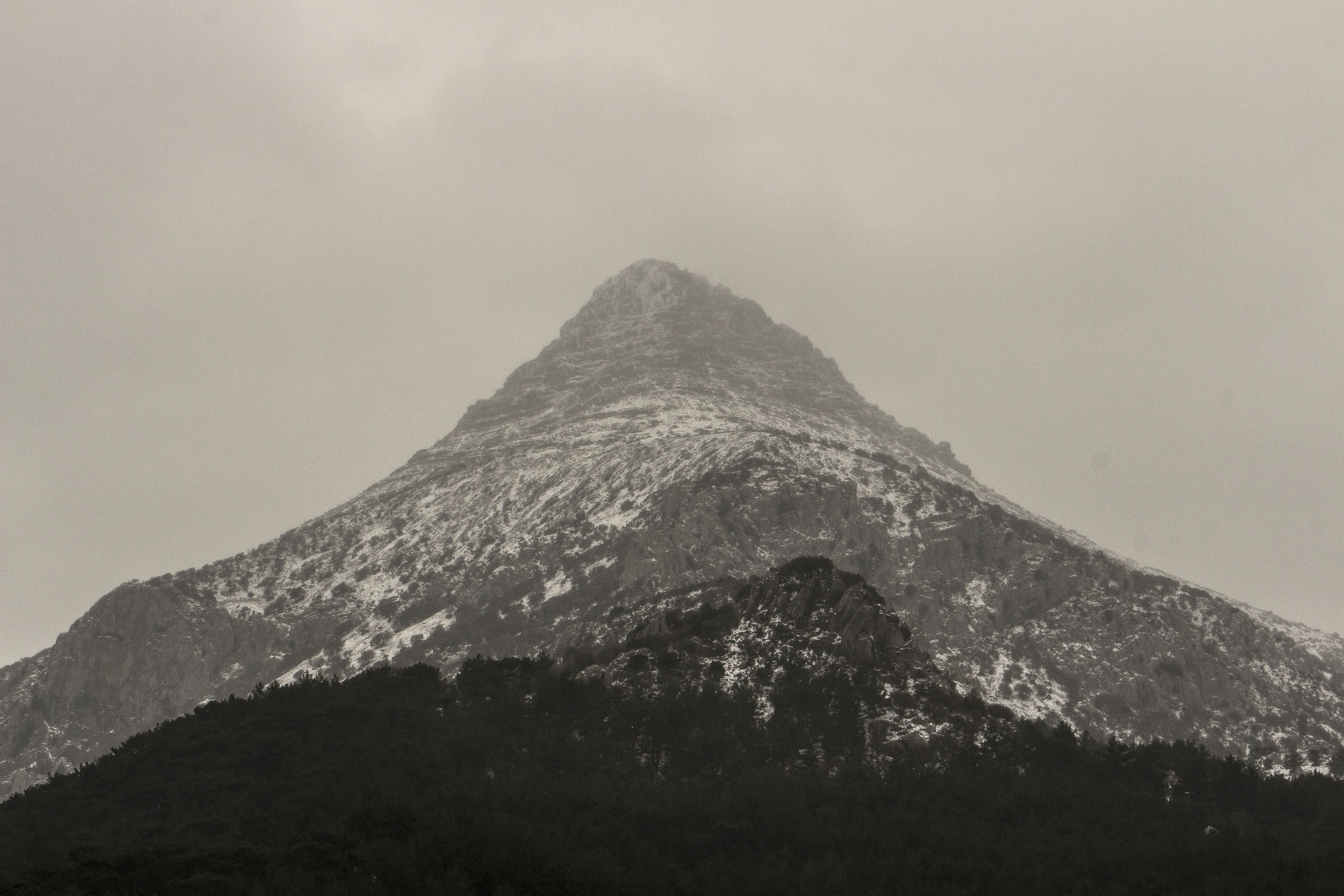 This is a photography of Natura 2000 protected area with ID GR4130001